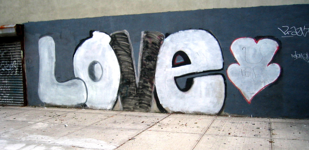 Love graffiti on Saint Felix street